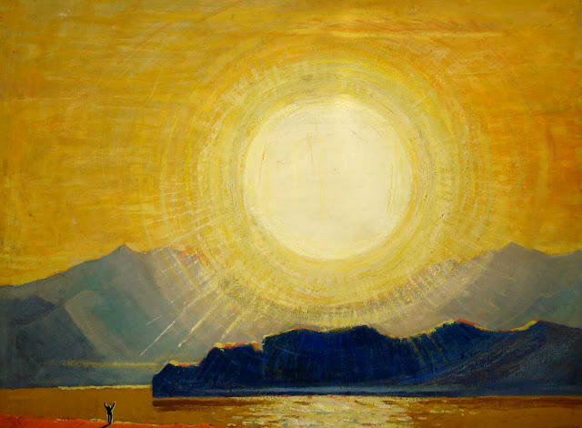 the pahoto of a painting of VP Tomilovsky